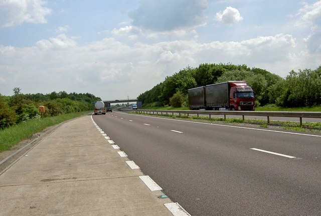 Lay by on A19 south near Thirsk.